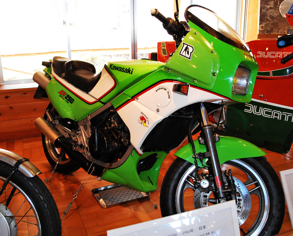 Kawasaki KR250